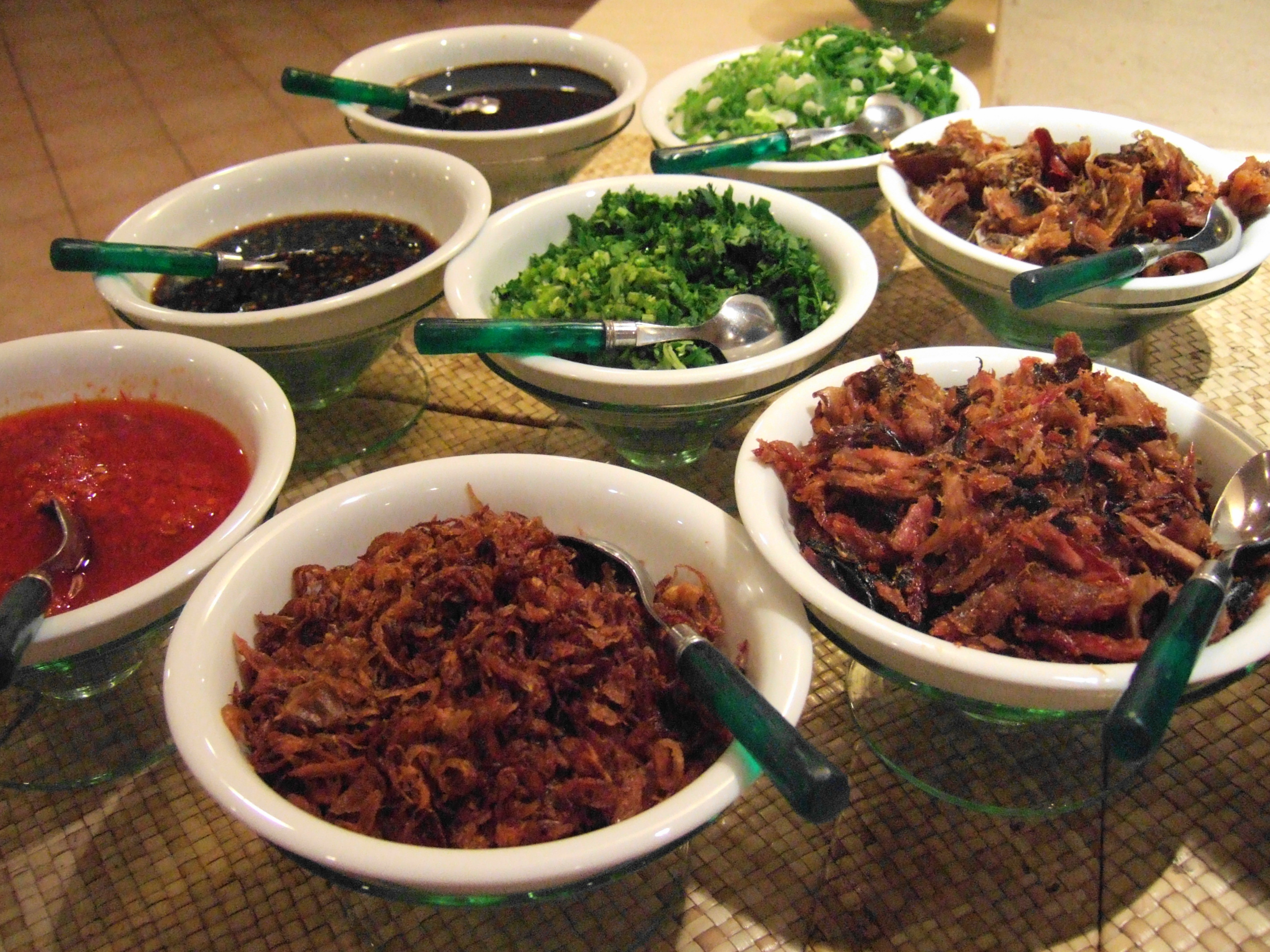 Topping for Tinutuan vegetable rice porridge (fried shallots, bonito flakes, coriander leaves, salted fish, and green onion)